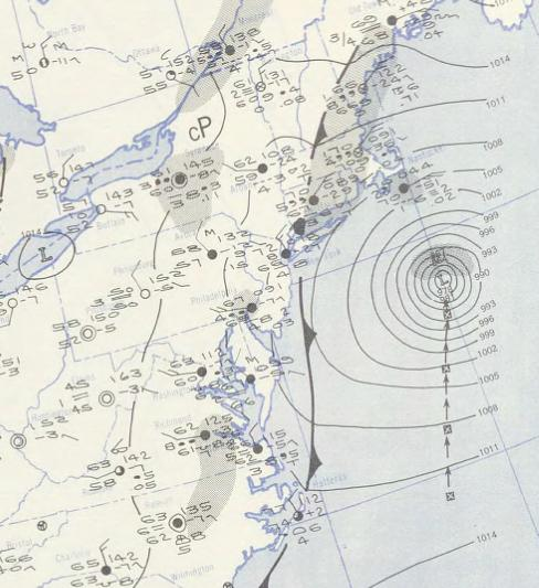 Surface weather analysis of Hurricane Carol on 7 September 1953.